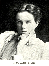 Alternate of File:Anna Alice Chapin01.JPG